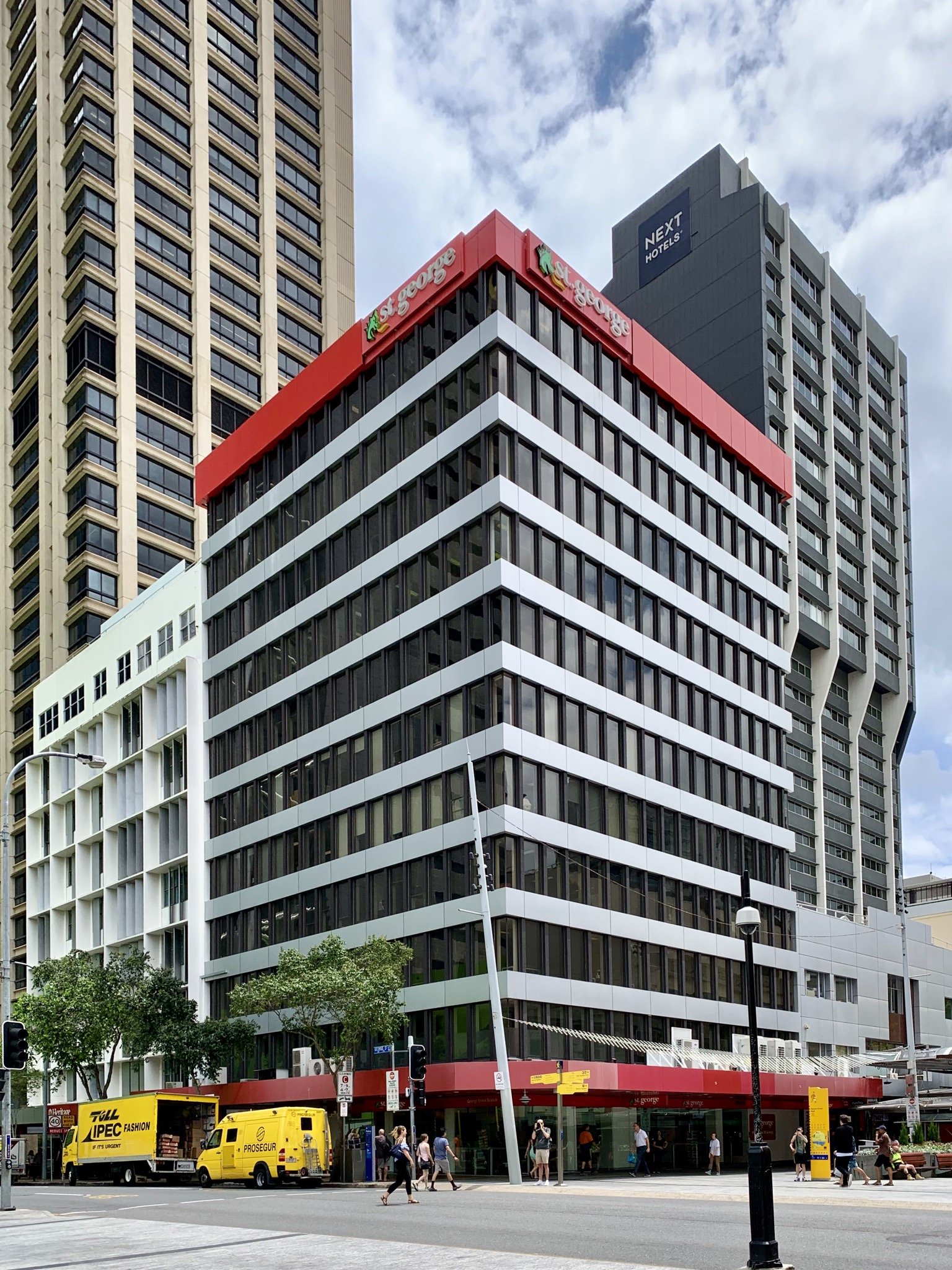 231 George Street (8 levels), 217 George Street (10 levels) and 52-60 Queen Street, Brisbane (2 levels) (from left to right)